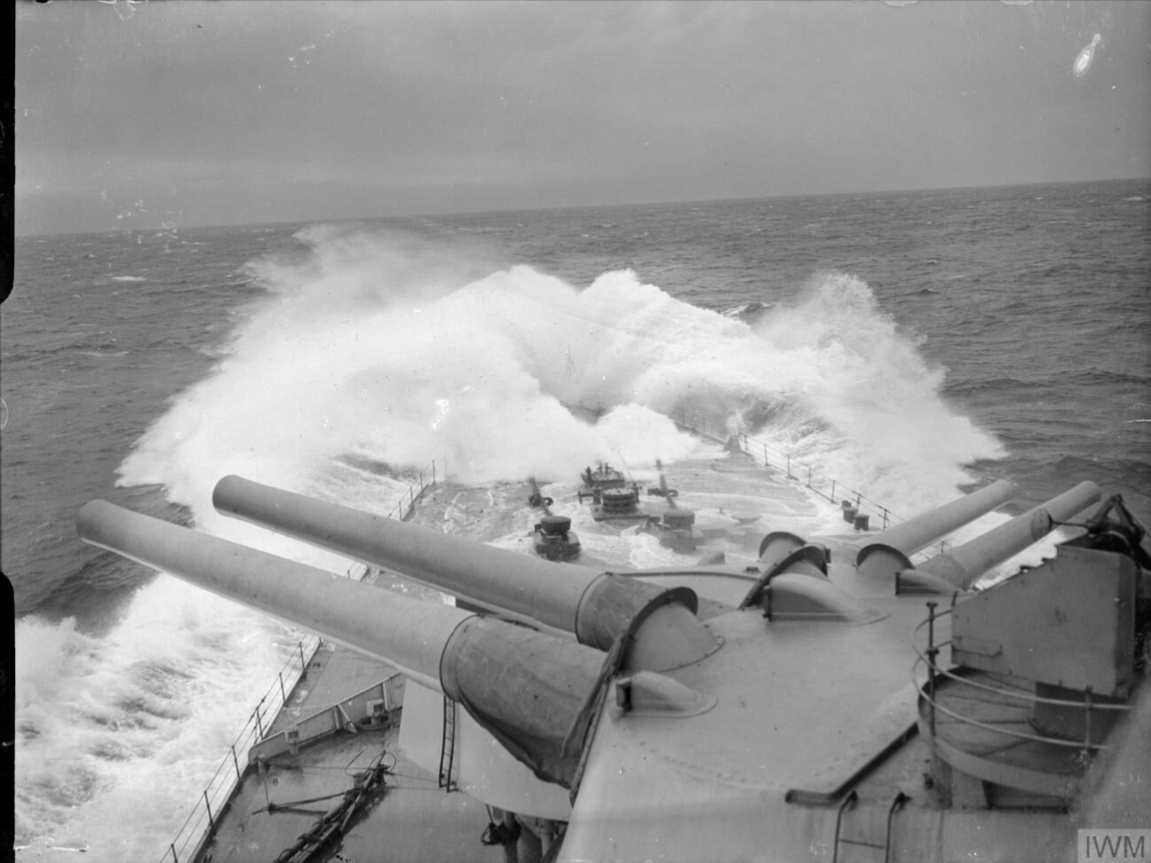 The Royal Navy during the Second World War A heavy sea breaking over the bows of the battleship HMS RENOWN.